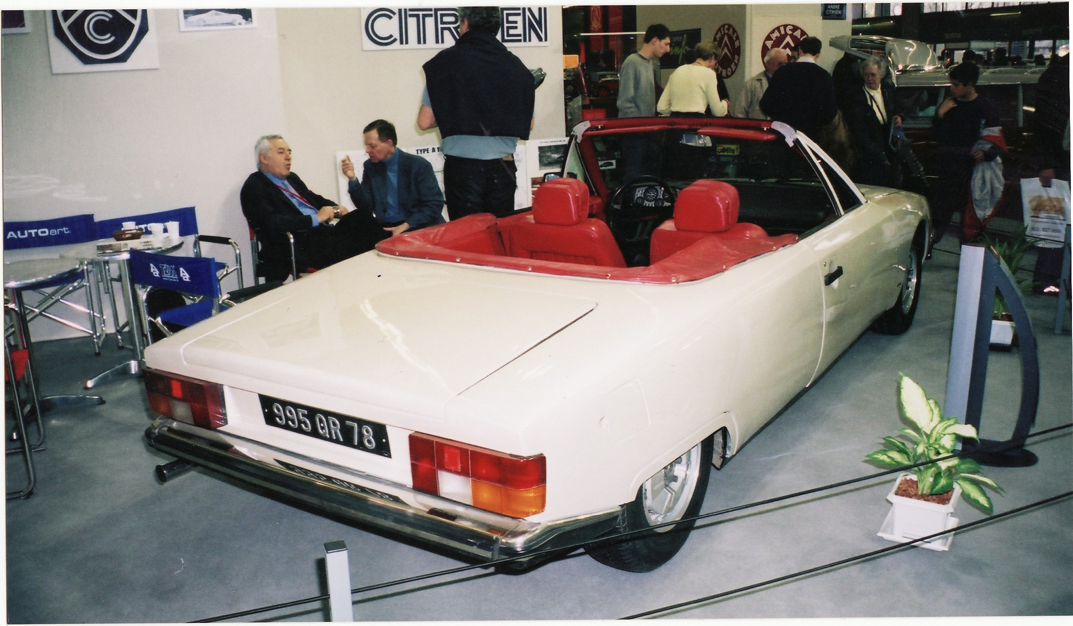 Spotted at Retromobile 2005